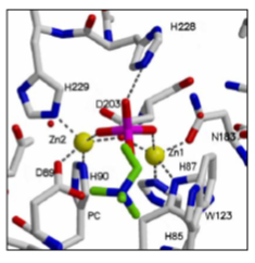 Active site o esterase